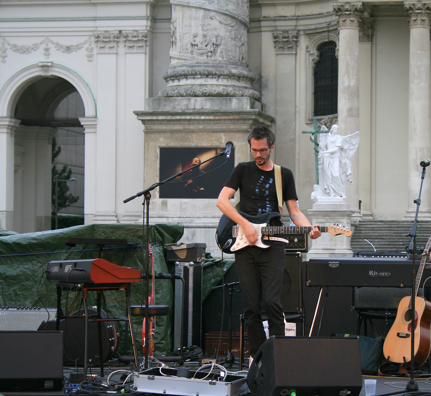 Ben Martin & Band, concert at Kunstzone Karlsplatz in front of St. Charles's Church in Vienna, Austria.